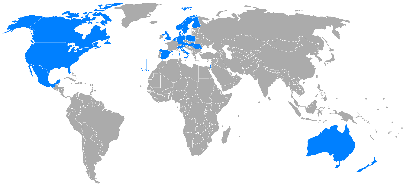 countries with their own version of Dancing with the stars as listed on the wikipedia article